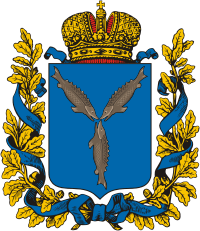 Saratov gubernia (Russian empire), coat of arms